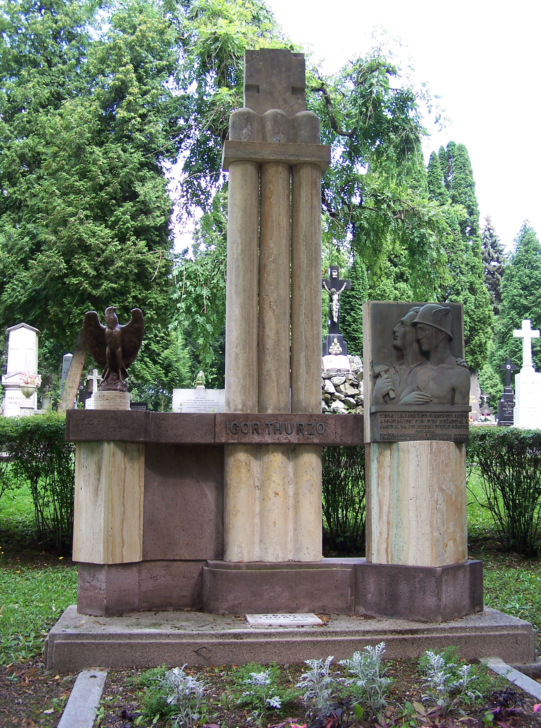 Grave of Igor Thurzo at the National Cemetery in Martin, Slovakia